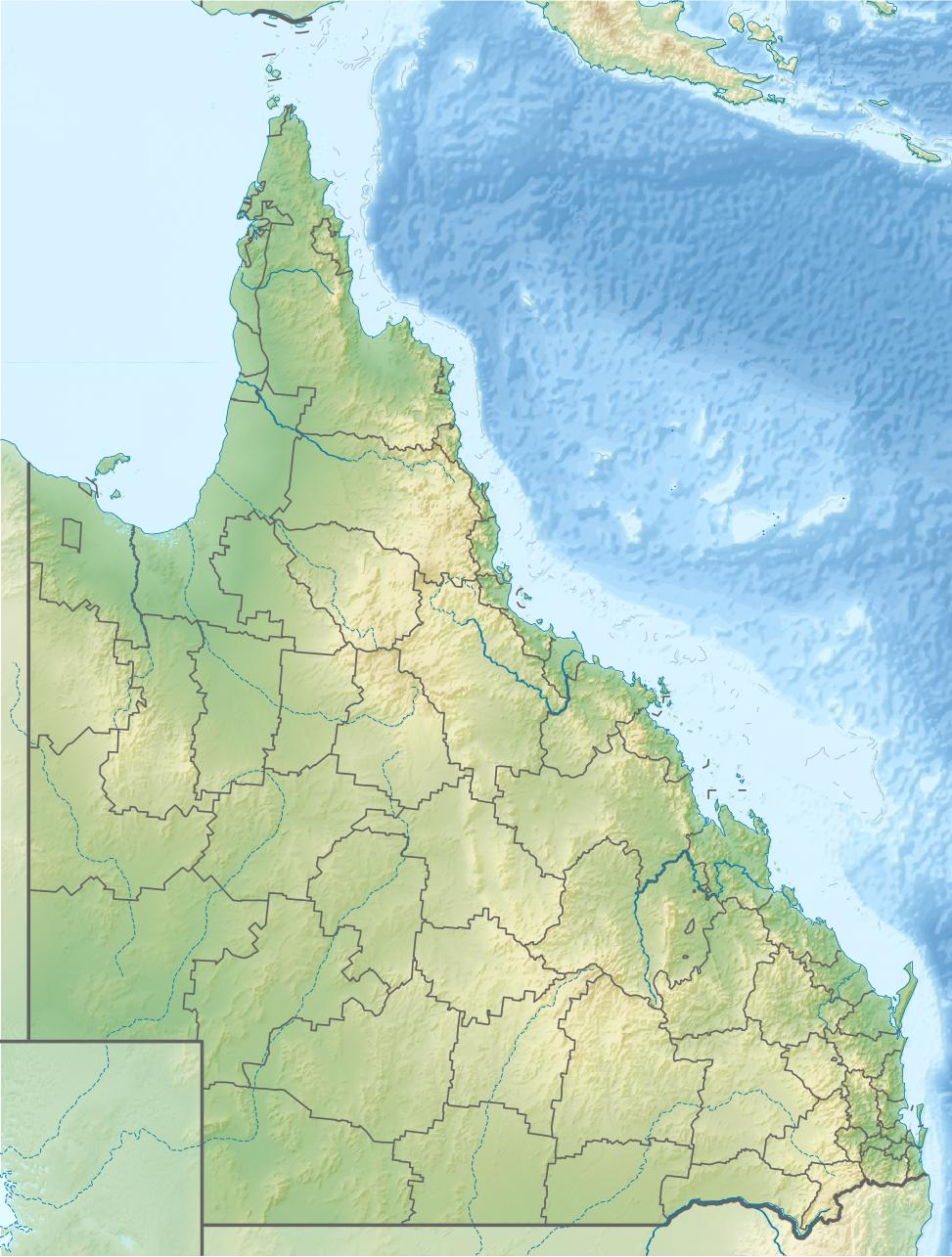 Location map of Queensland, Australia Equirectangular projection, N/S stretching 106 %. Geographic limits of the map: N: 9.0° S S: 29.5° S W: 137.5° E E: 154.0° E Borders and Reefs from the other map by NNW.